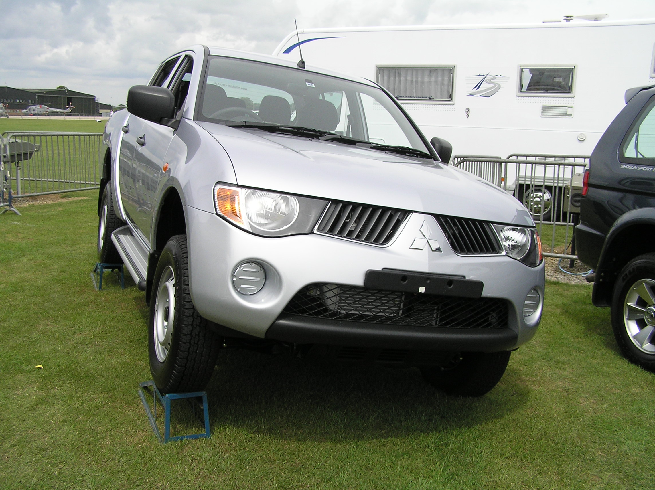 2006 Mitsubishi L200, photographed in the United Kingdom.